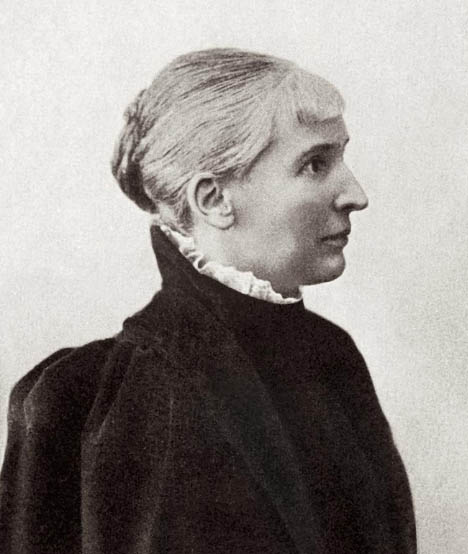 photograph of Helene von Mülinen, 1897